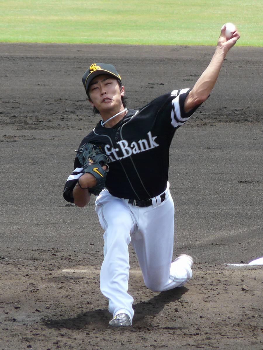 Tsuyoshi Wada, pitcher of the Fukuoka SoftBank Hawks, at Hanshin Naruohama Baseball Ground.